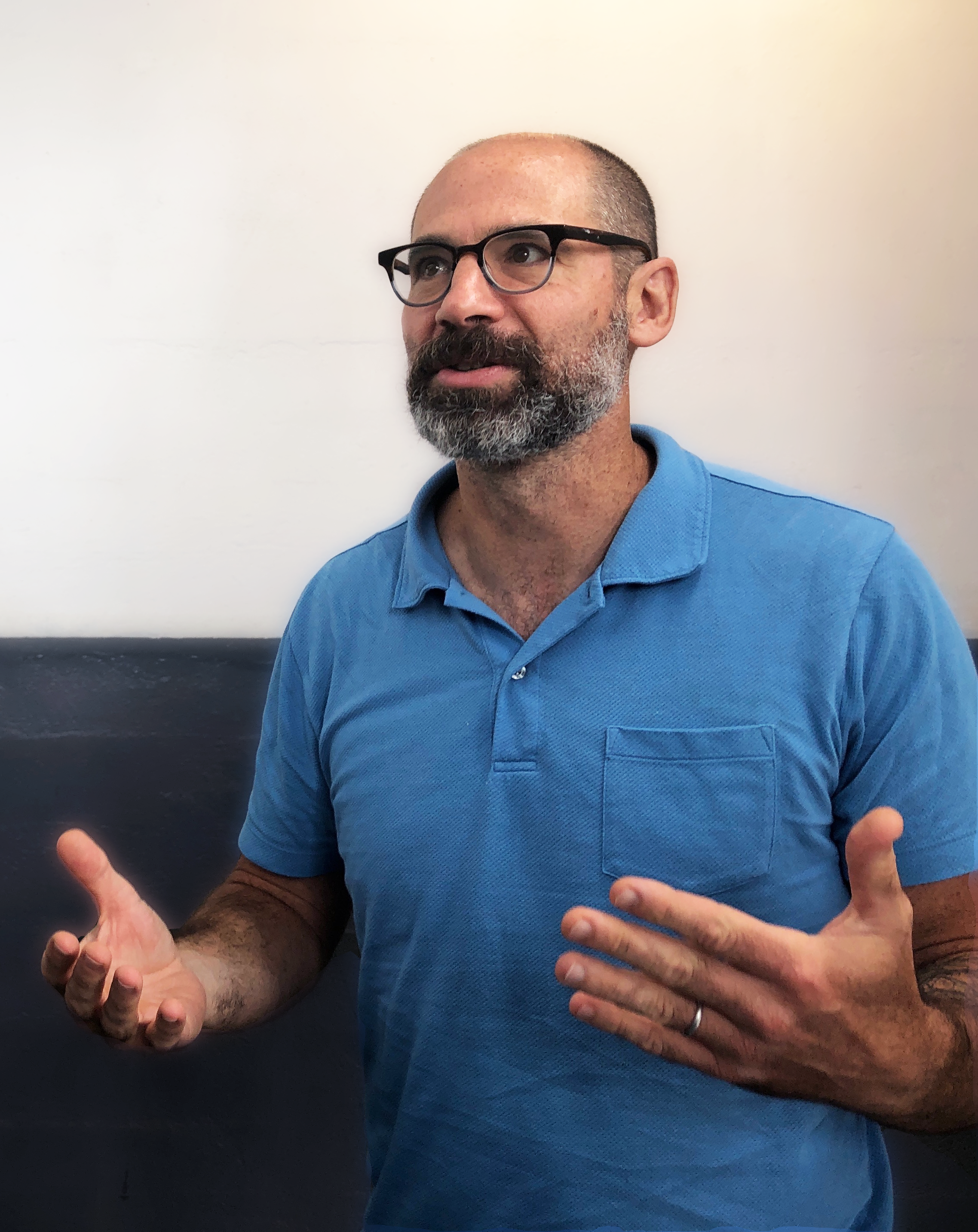 Photo of David Plotz in 2019